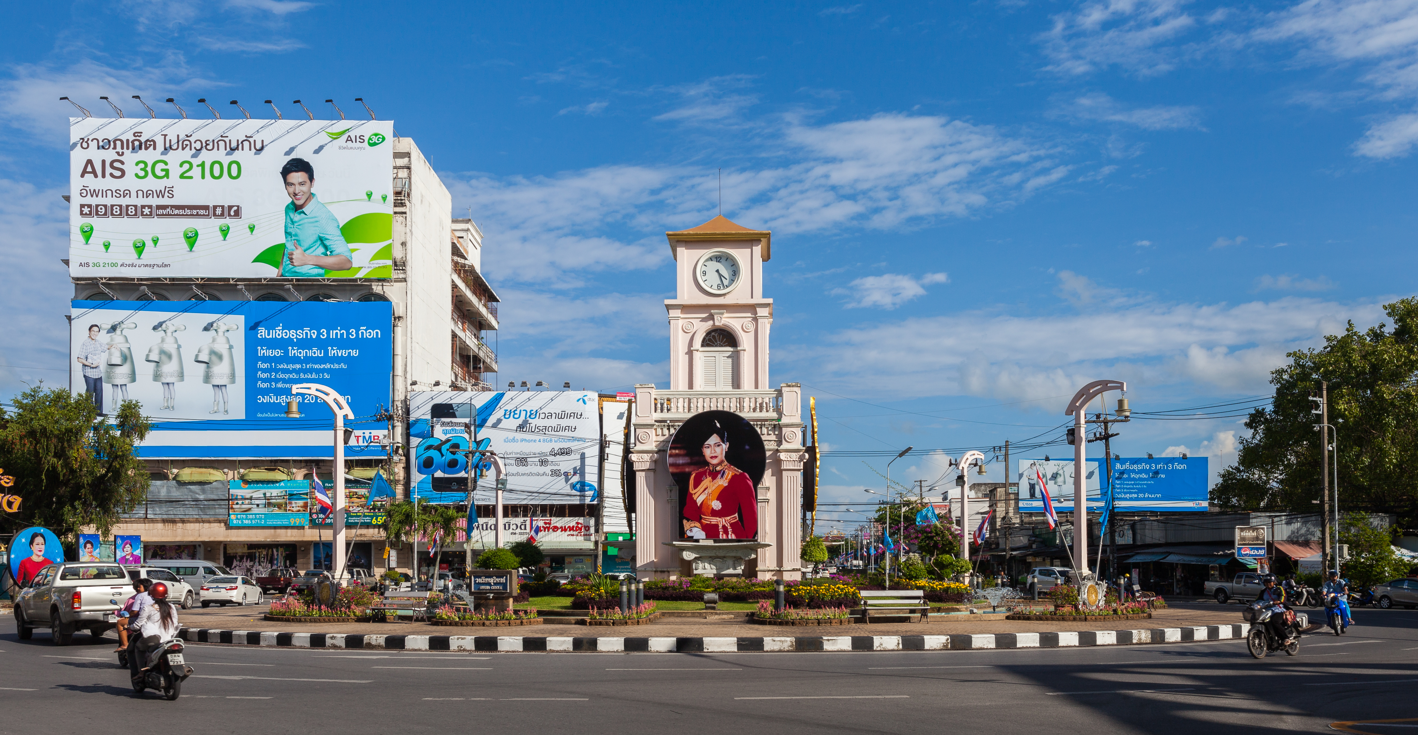 Surin Roundabout, Phuket, Thailand